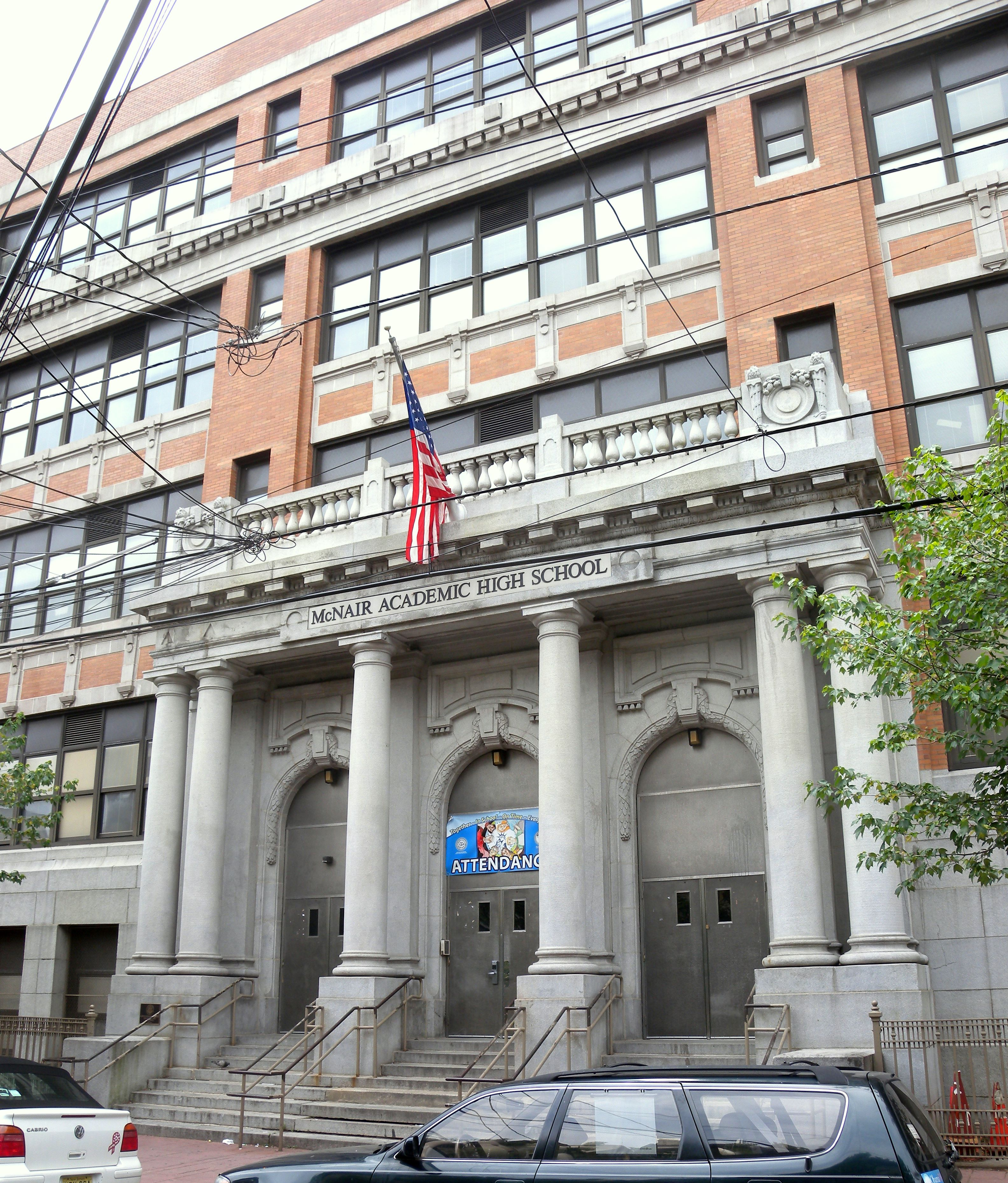 Looking southwest across Coles Street at McNair HS on a cloudy afternoon.